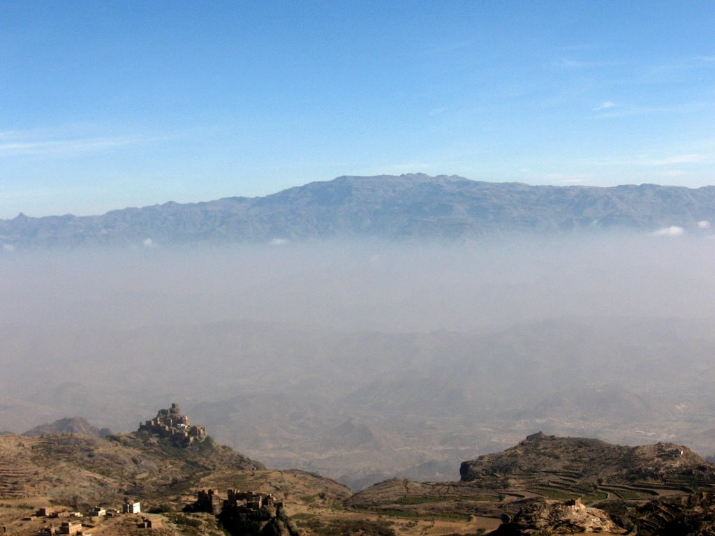 trekking in Haraz mountain